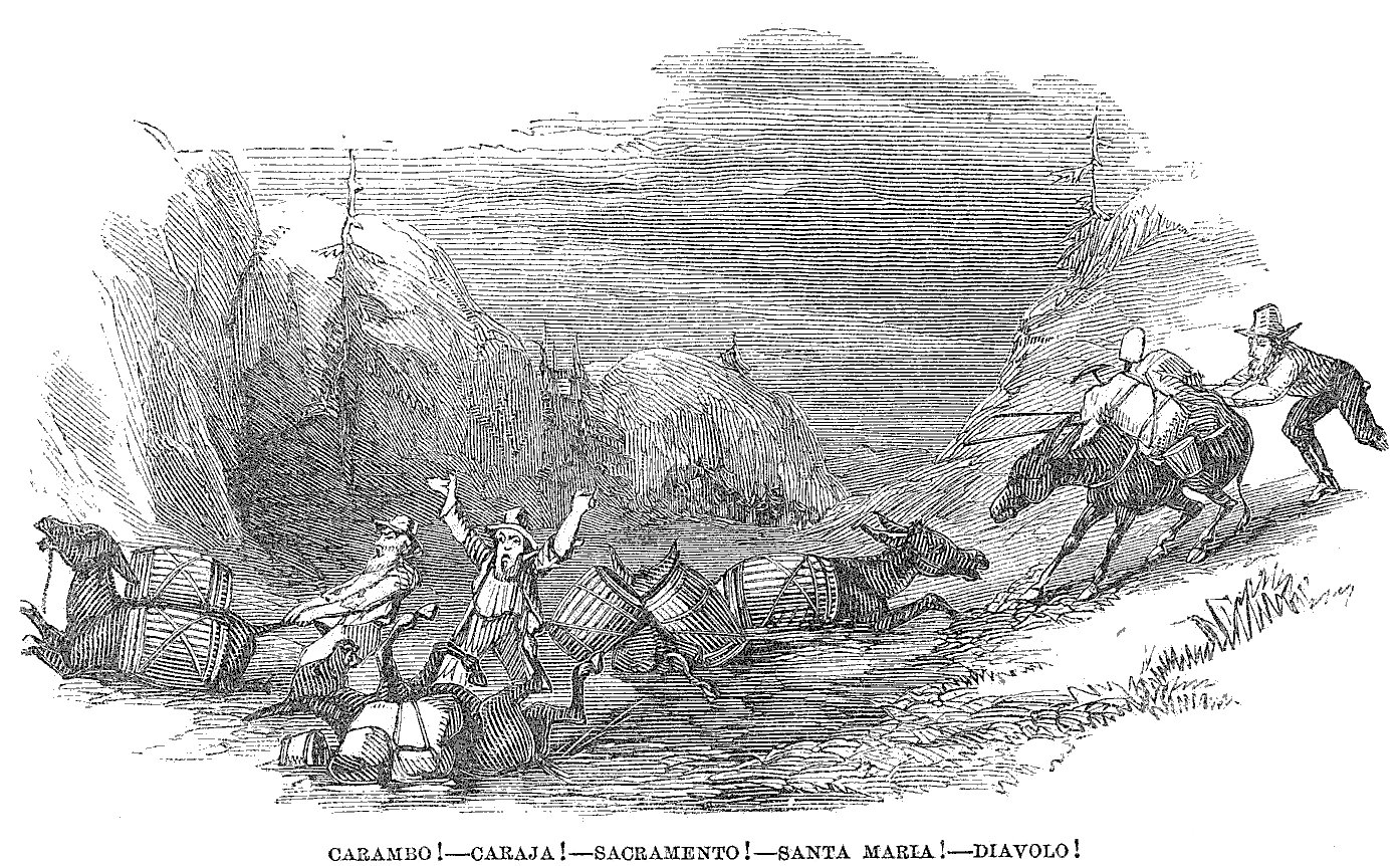 "Carambo!—Caraja!—Sacramento!—Santa Maria!—Diavolo!", illustration from "A Peep at Washoe" by J. Ross Browne, in Harper's Monthly Magazine, December 1860. Prospectors en route from California to the Washoe Valley (now Nevada, then the Utah Territory). According to the accompanying narrative, this would be between Placerville and Strawberry Flat. The title is a series of mild oaths in Spanish. The first two are mangled, and should be "¡Caramba!—¡Carajo!"